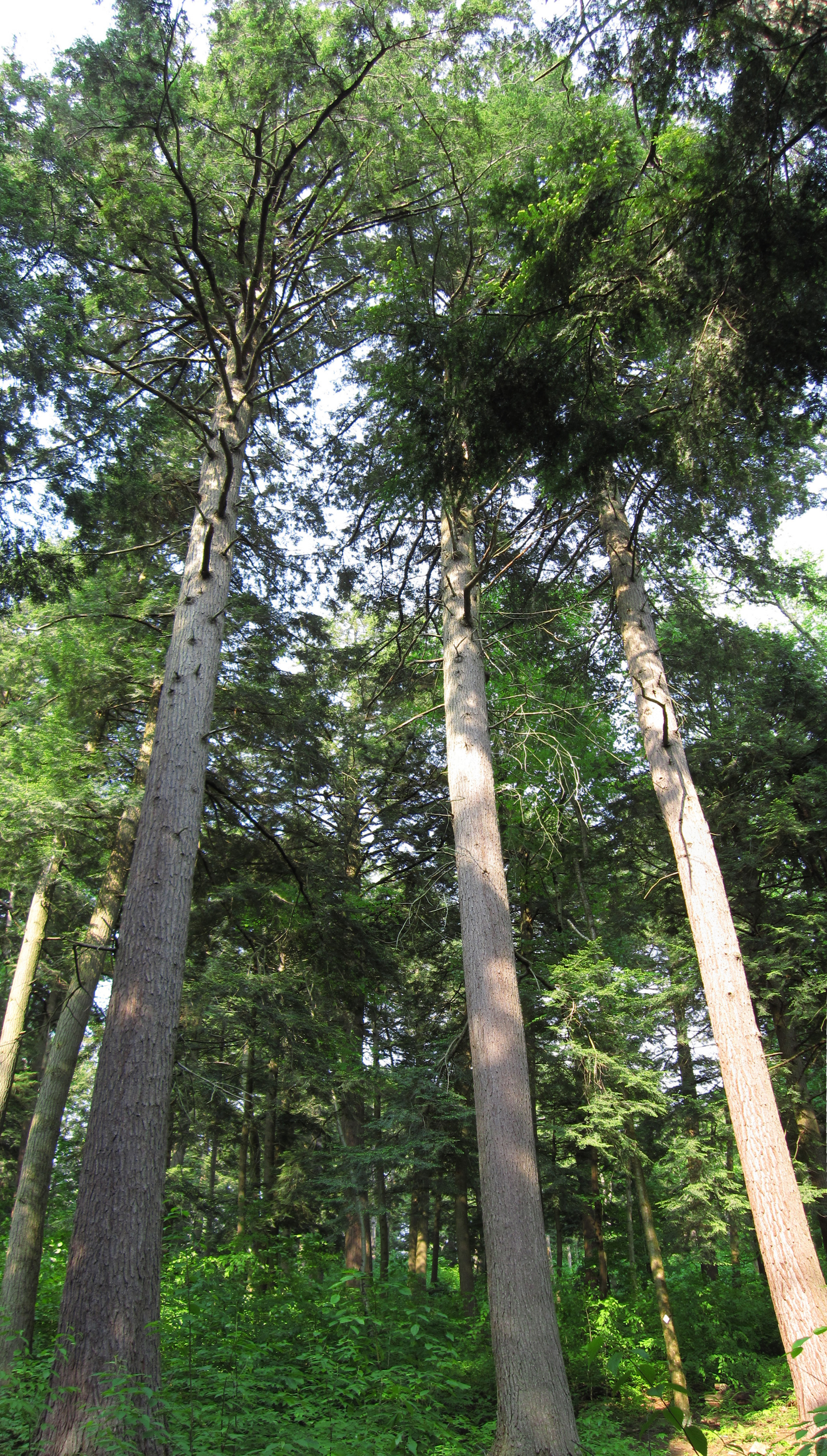 Old growth Eastern Hemlock Tsuga canadensis in Tionesta Scenic Area, Allegheny National Forest, Hamilton, Pennsylvania, USA.